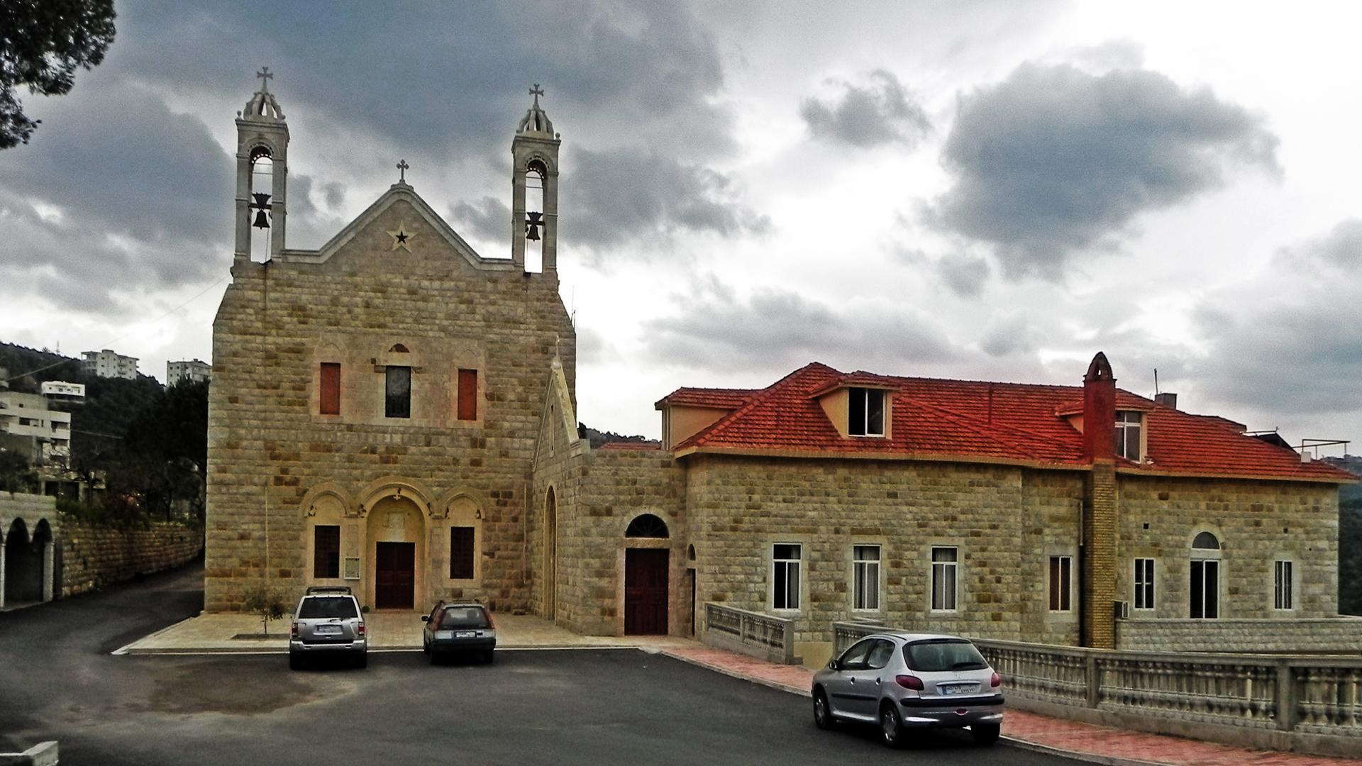 Ghosta Monastry and Church, Lebanon